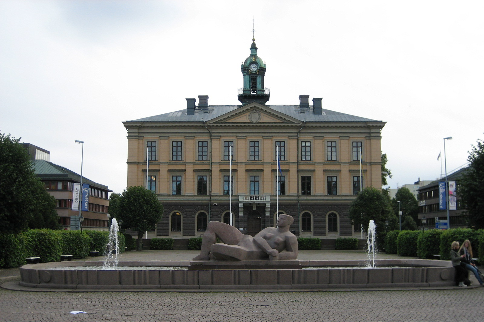 Rådhuset, Gävle, sett från norr. I förgrunden Rådhustorget med Eric Grates skulptur "Gudinna i hyperboreiskt hav". (City and court hall, Gävle, Sweden, seen from the north. In front of the building the square Rådhustorget with Eric Grate's sculpture "Goddess in a hyperborean sea".)